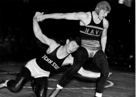 The varsity wrestling team of 1949 just couldn't seem to be defeated in dual competition. Its string of victories reached the half-century mark and the post-season excellence of the individual grapplers was no less sensational. Bart Downes is shown here wrestling against Penn State. [#3386; 219K]